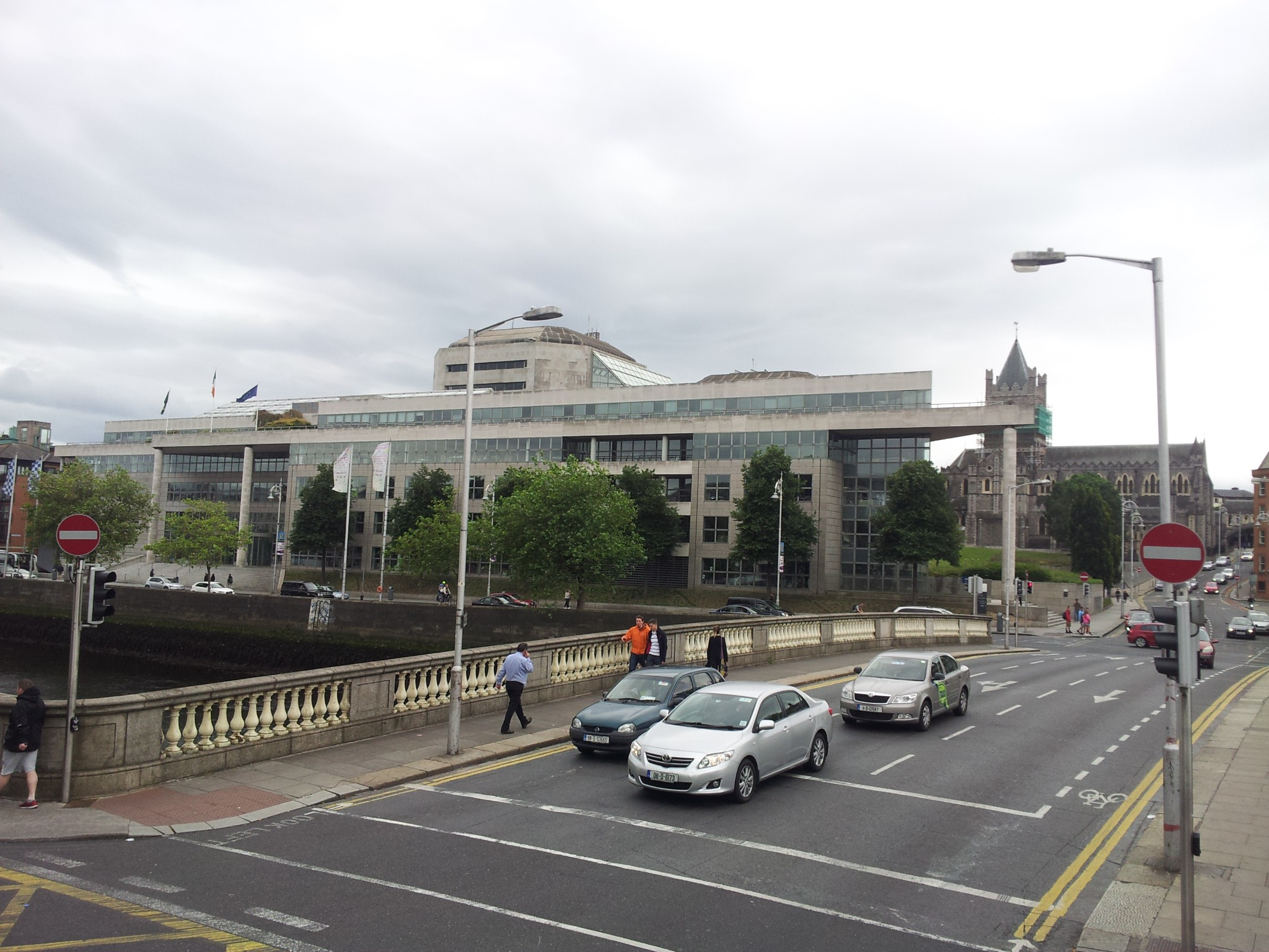 O'Donovan Rossa Bridge, showing traffic on road. Dublin City Council building across the river Liffey in background